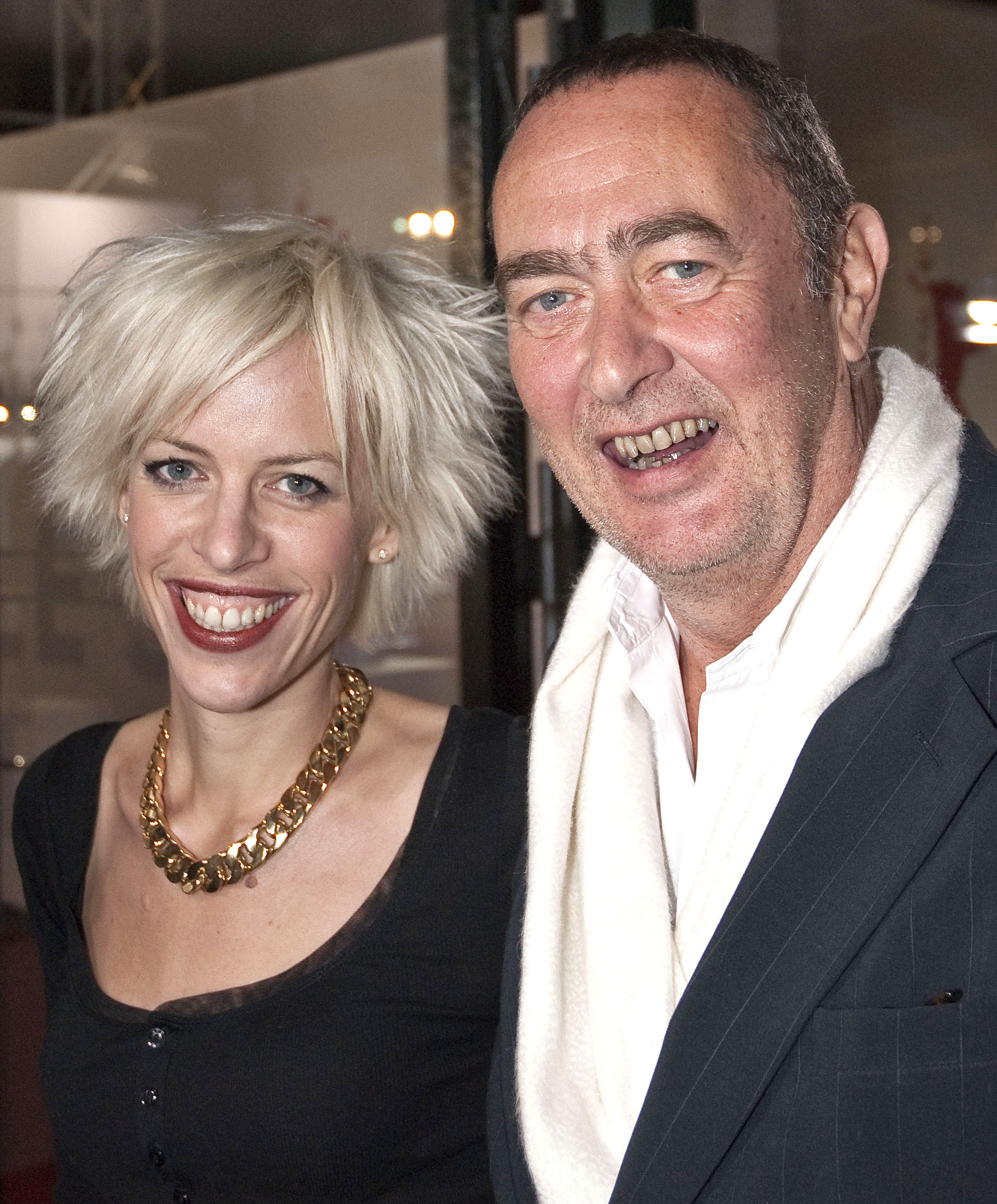 Bernd Eichinger, German movie producer, writer and director with his wife Katja Hofmann at the Volkswagen People’s Night 2008